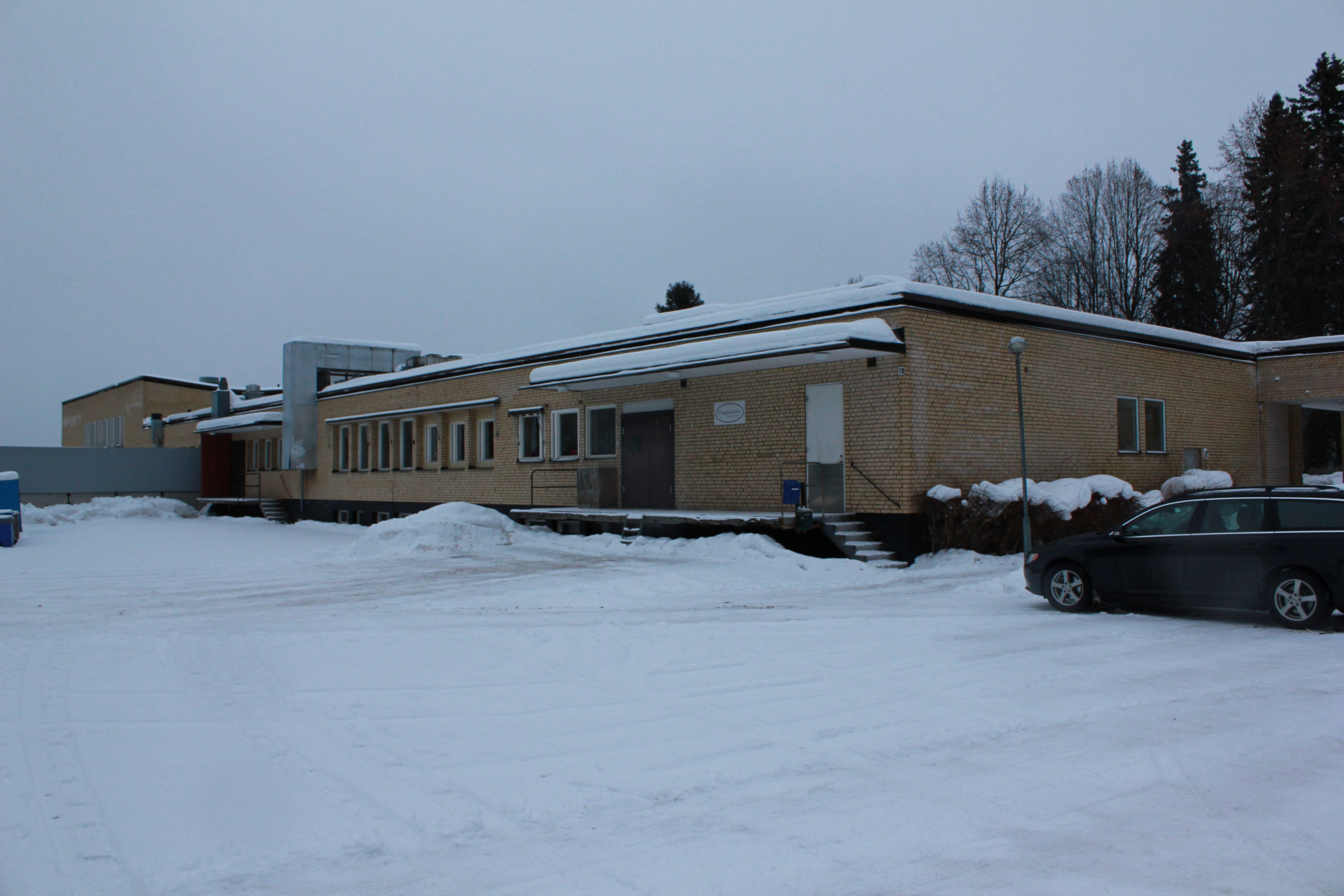 Haggårdsköket, former central kitchen for Haggården, now a company of its own. The outer left part of the building is a gymnasium for school Fyrklöverskolan. Hedemora, Dalarna, Sweden.